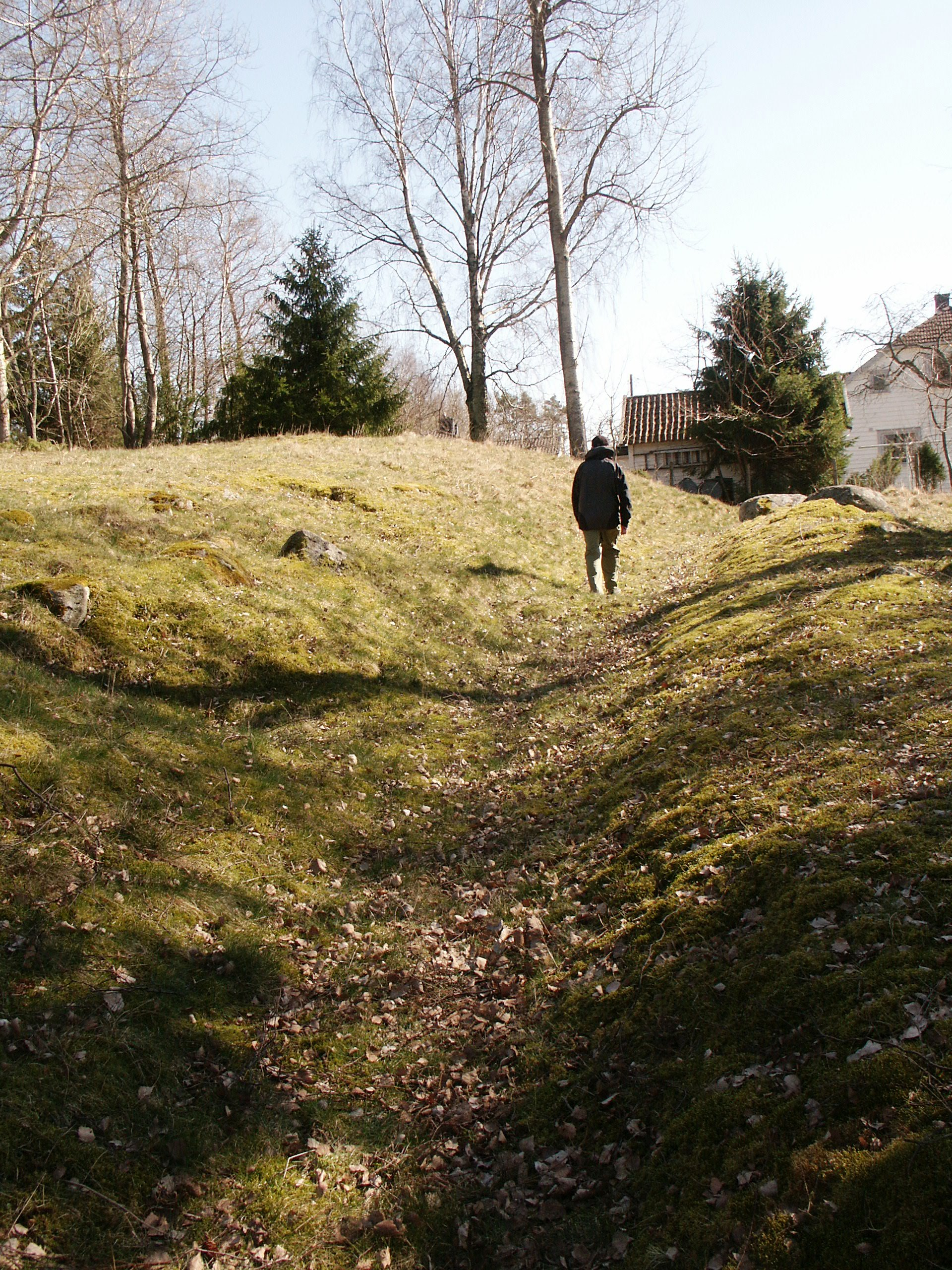 Ancient road at Hunn, Fredrikstad